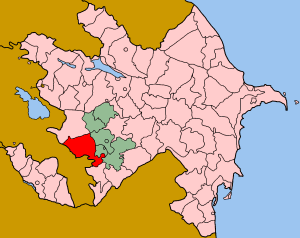 Map of Azerbaijan showing Lachin (Laçın) rayon.